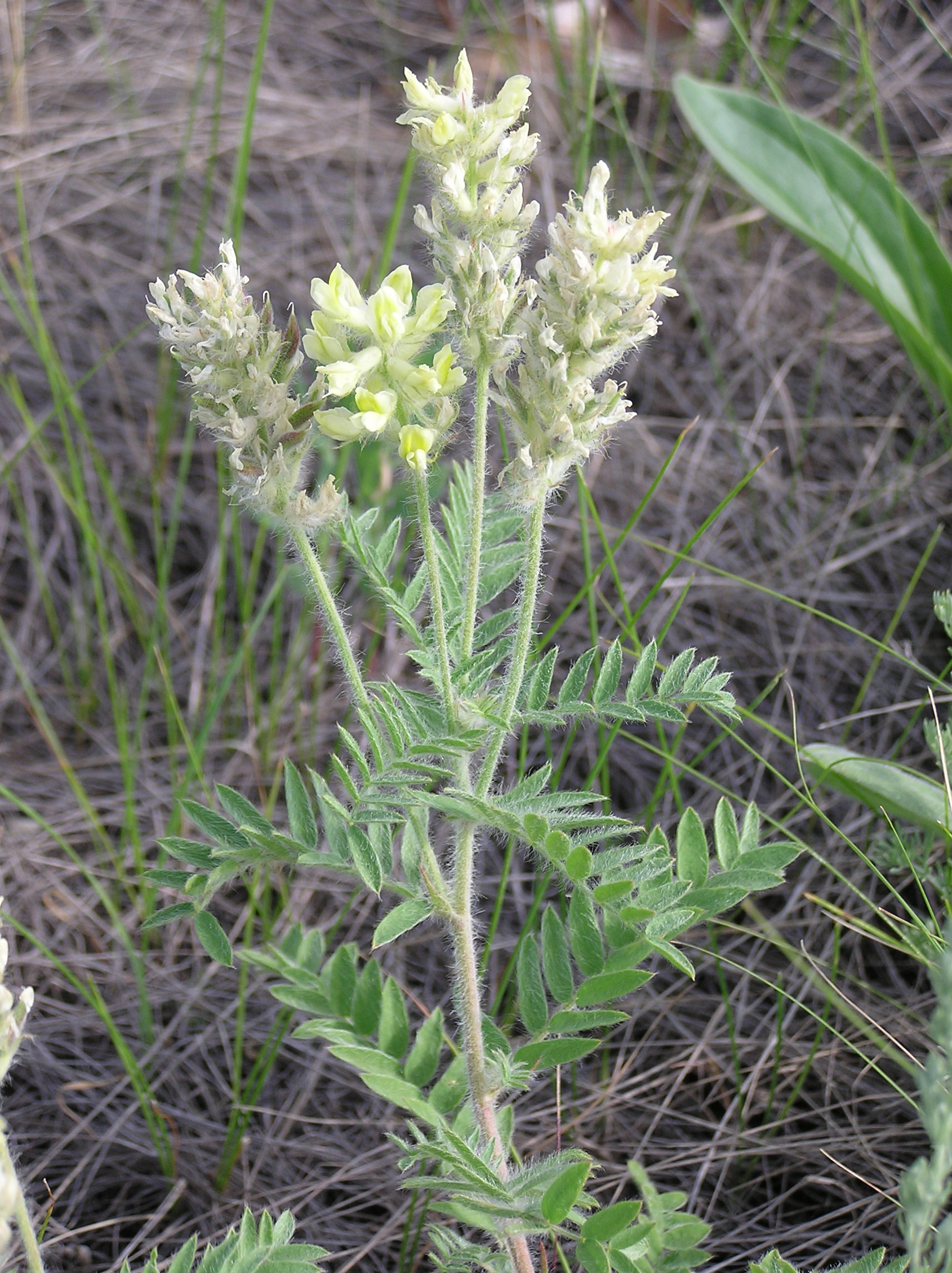 Oxytropis pilosa (L.) DC. Habitat: steppe. Vicinity of Saratov city, Russia.